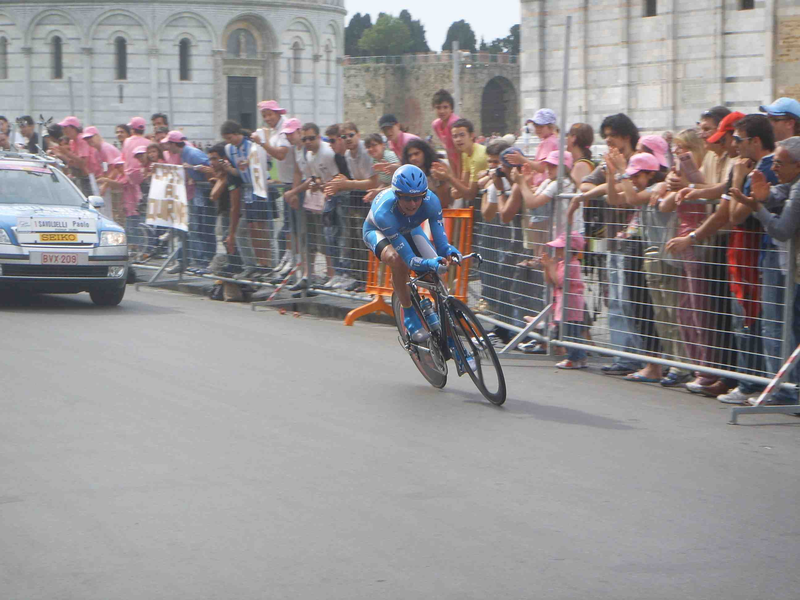 Paolo Savoldelli in the Individual Time Trial of 2006 Giro d'Italia (Pisa, Field of Miracles) Own work Date of creation: 18th May 2006 Author: Giuseppe Cristiano